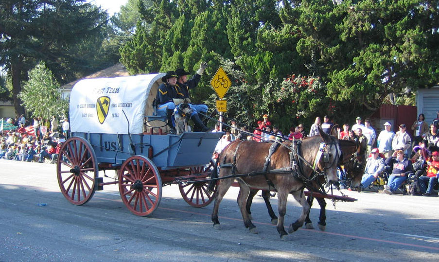 First Calvalry Div. U.S. Army, Fort Hood TX